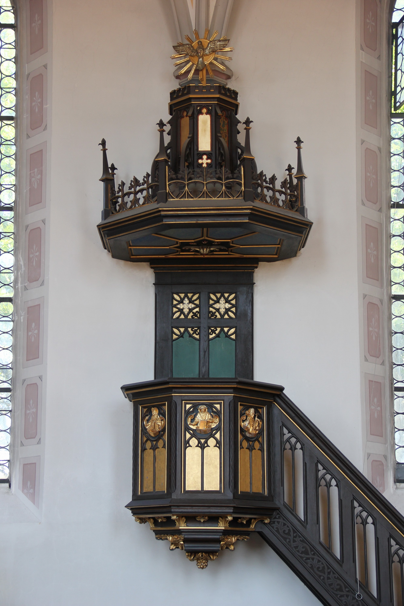 St. Peter's Church Native nameSt. Peter LocationBavaria , GermanyCoordinates48° 28′ 49.98″ N, 11° 42′ 37.08″ E Authority control : Q30311711 VIAF: 307301105 institution QS:P195,Q30311711